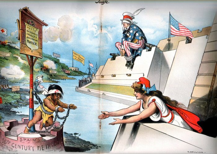 Editorial cartoon from Judge (magazine) (US) February 2 1897 scanned from original paper copy copyright expired (pub. pre 1923)